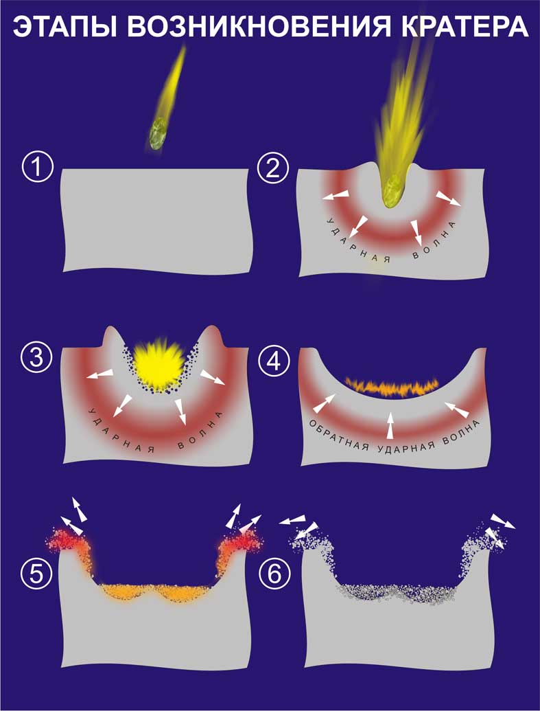 Stages of formation of the impact crater